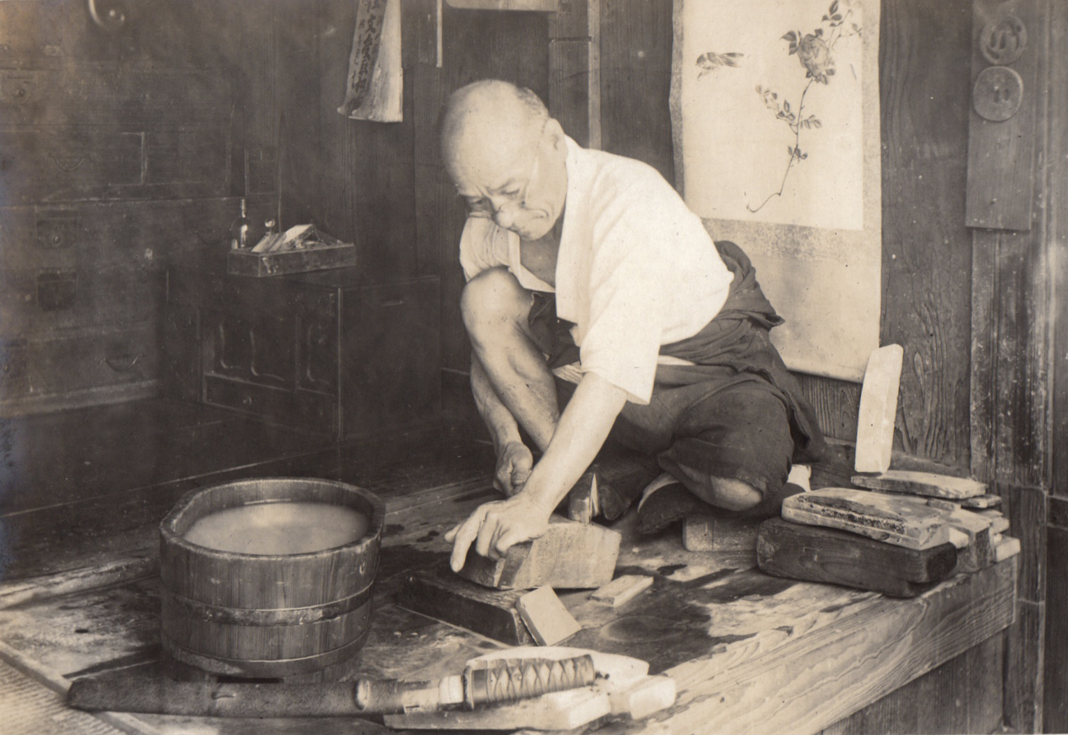 My spouse's uncle Elstner Hilton took this photo in Japan between 1914 and 1918. I wish I knew enough about Japanese culture to identify the activity this man is engaged in. My best (and only) guess is that he's honing ink stones for use in calligraphy. I base this on the stack of rectangular stones at the rear of his work space on the right. They might be the finished product.